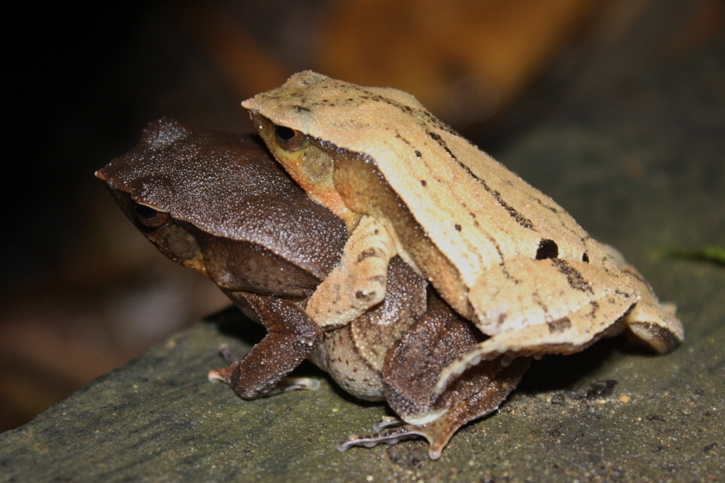 Found next to the Loboc river on Bohol, breeding in a small plastic container.